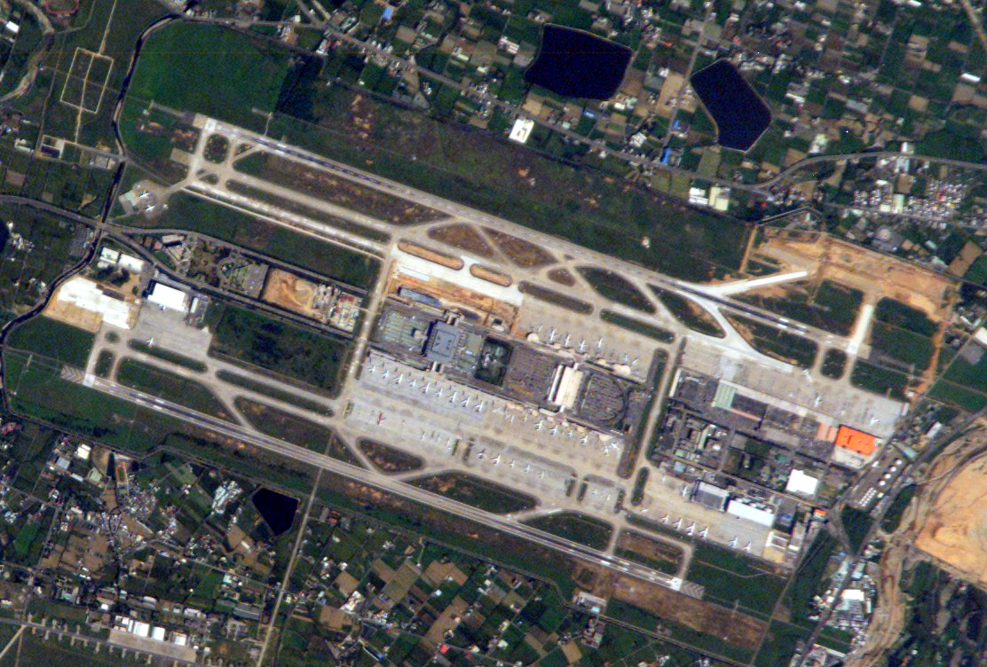 Taoyuan International Airport